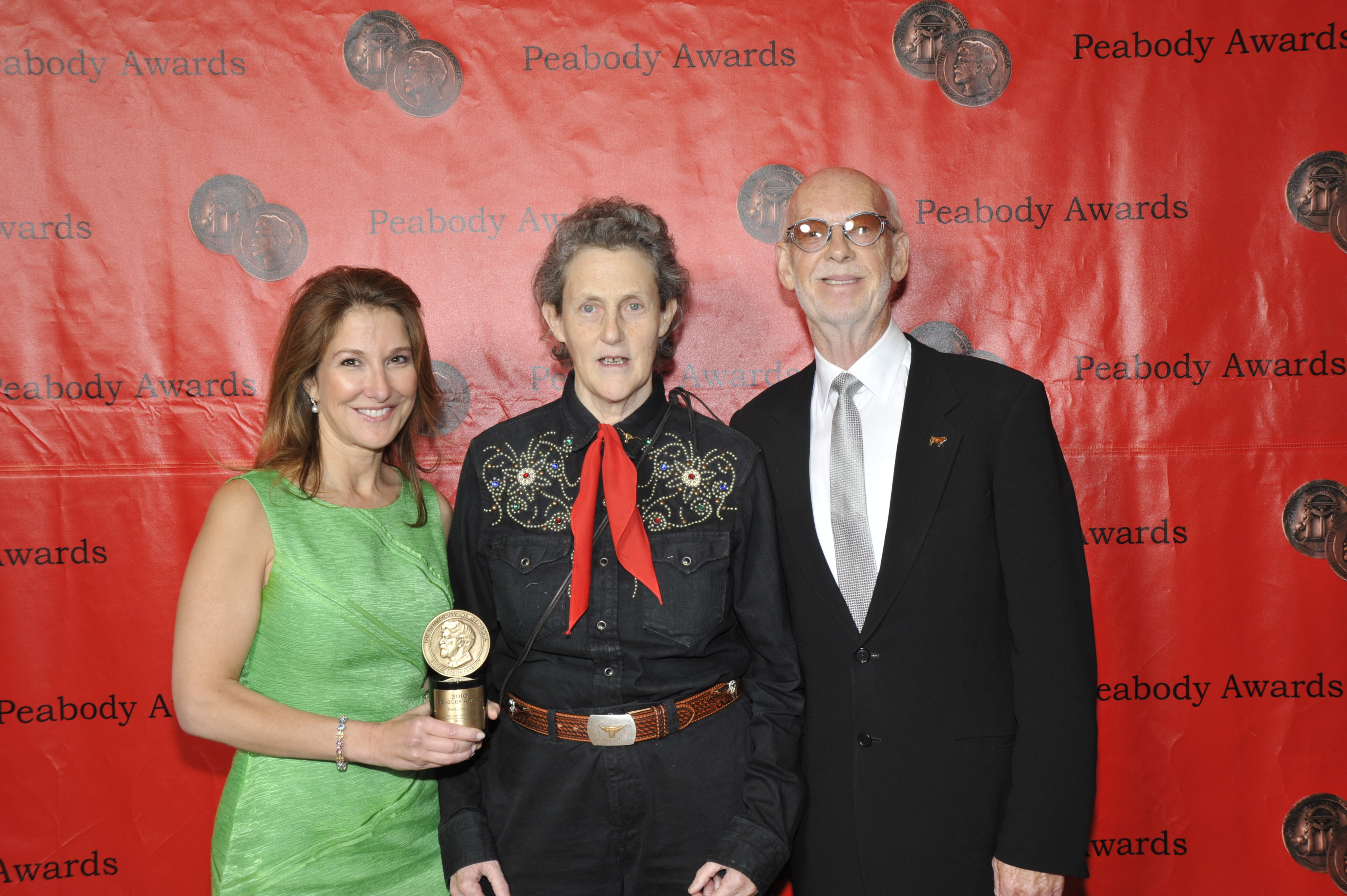 PHOTO CREDIT: ANDERS KRUSBERG / PEABODY AWARDS Emily Gerson Saines, Temple Grandin and Mick Jackson 70th Annual Peabody Awards Luncheon Waldorf=Astoria Hotel May 23, 2011